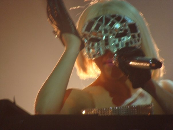 Lady Gaga on her "The Fame Ball Tour" in Zurich in the Event Maag Hall the 21 July 09.